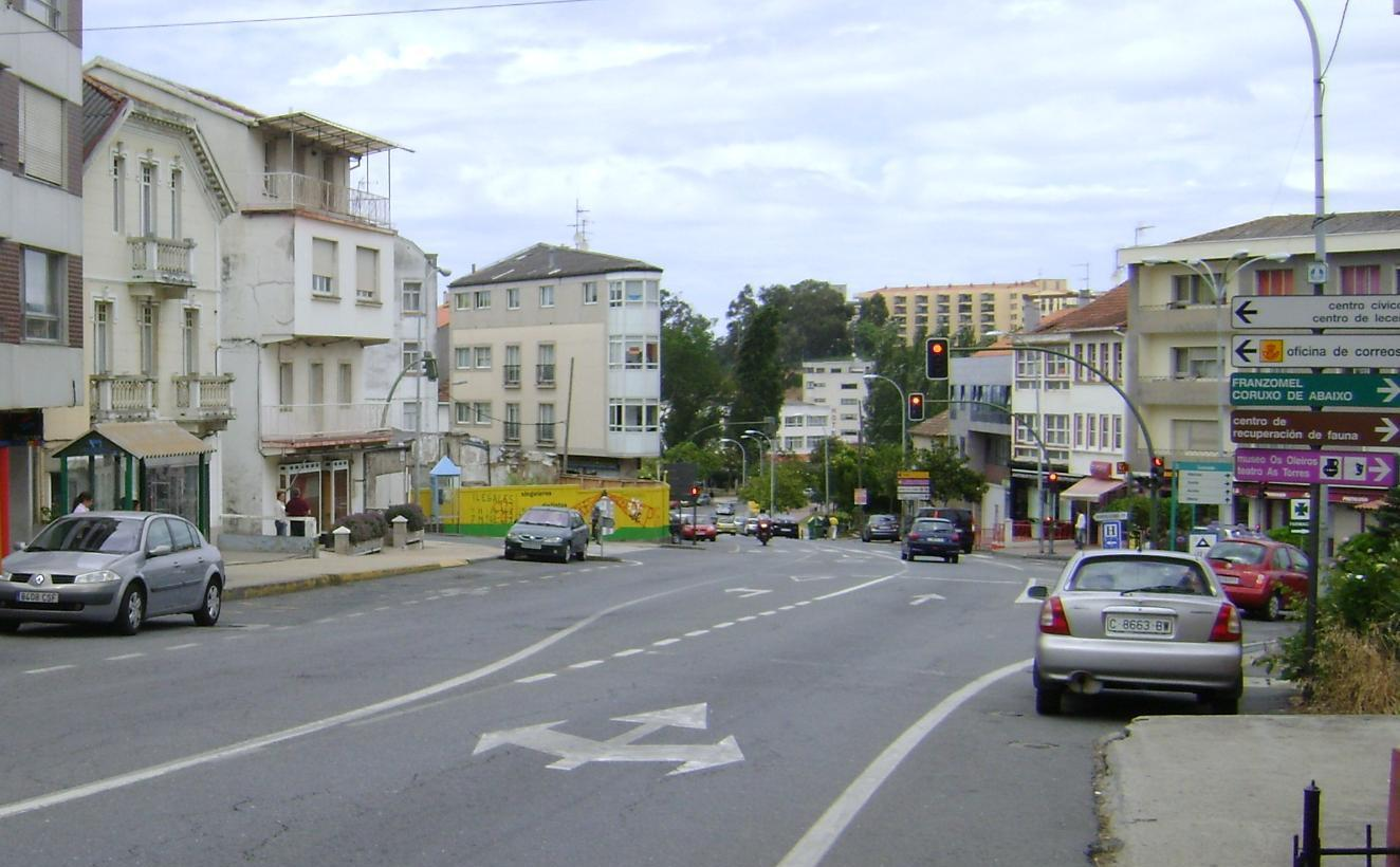 Santa, Cruz, Oleiros, La Coruña. España